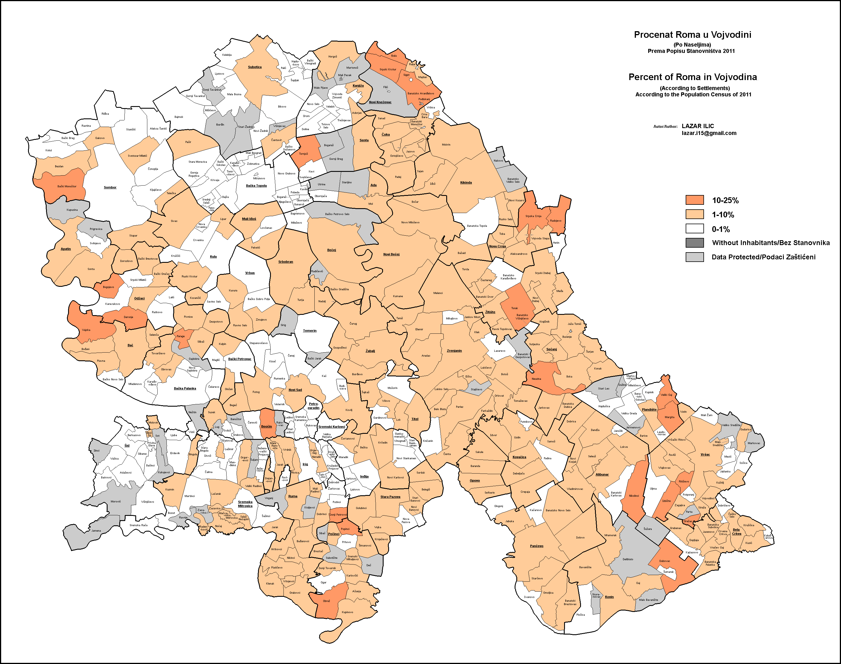 This is an ethnic map of Vojvodina (Northern Serbia) which shows the percent of Roma according to each settlement, according to the 2011 population census.